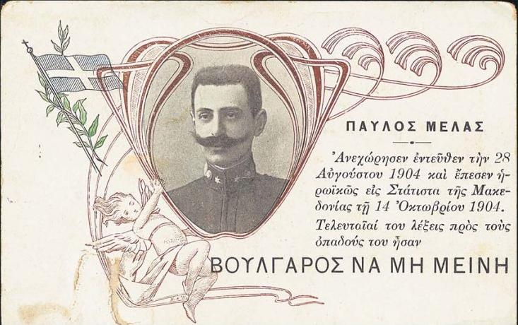 Postcard of Pavlos Melas